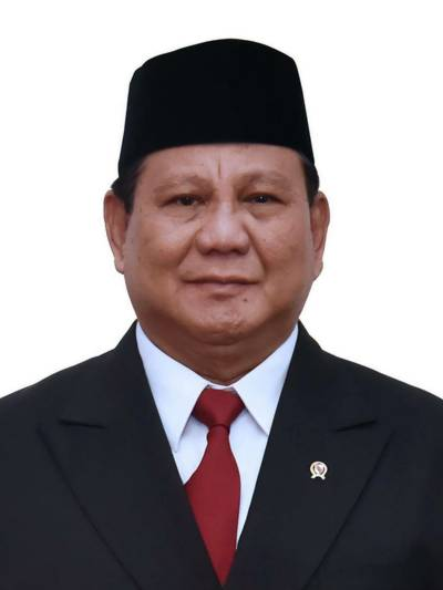 Onward Indonesia Cabinet Official Portrait - Prabowo Subianto as Minister of Defence